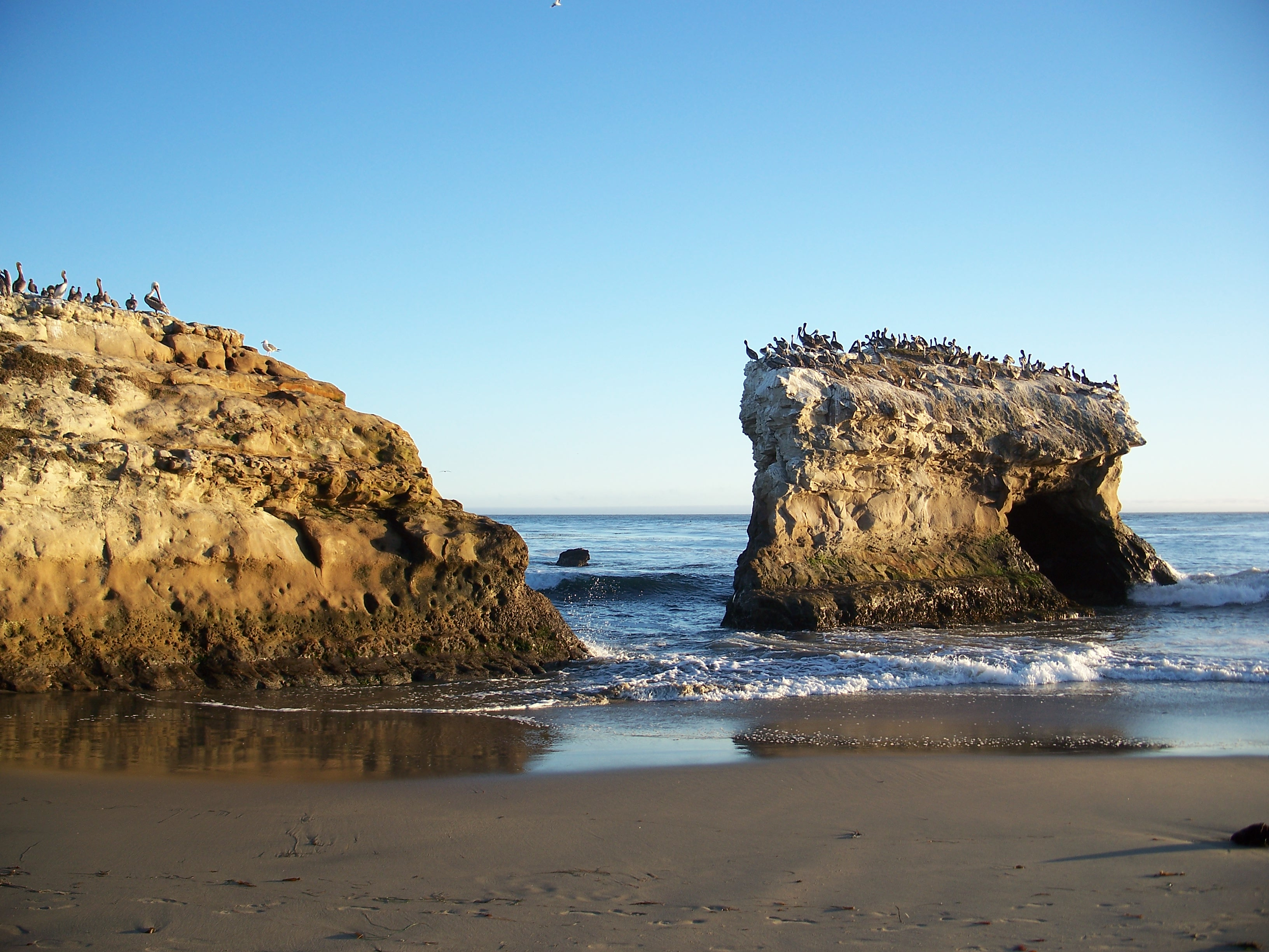 Natural Bridges State Beach. Santa Cruz, California, USA.